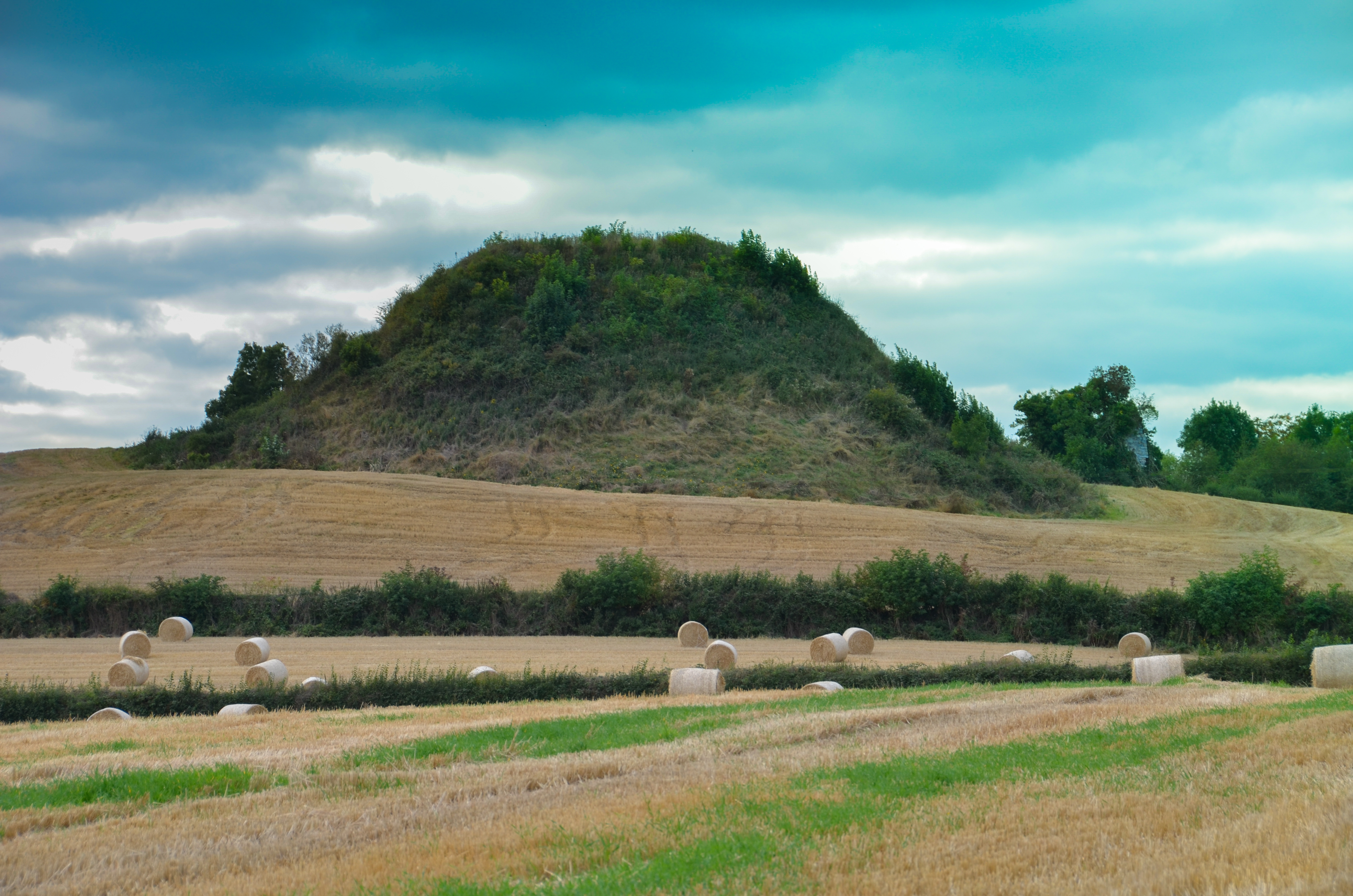 Knockgraffon Moat